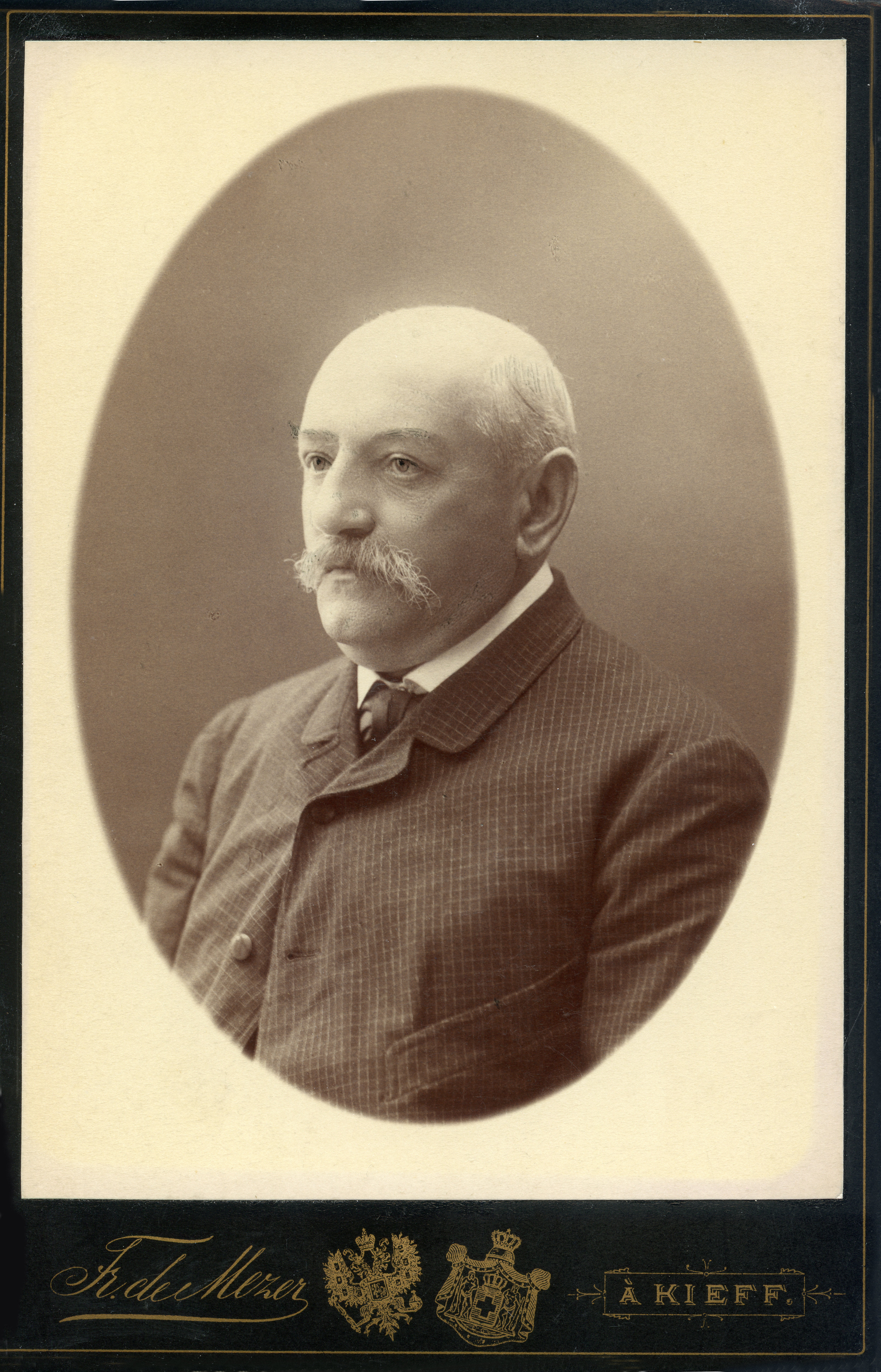 Bernardo Semadeni (1827-1892), a confectioner of Swiss origin, the owner of the confectioner's shop and café "Pod Filarami" at the Theatre Square in Warsaw